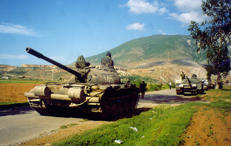 Albanian army deploys T-59 tanks near Kosovo border due to the Albania-Yugoslav border incident in 1999.